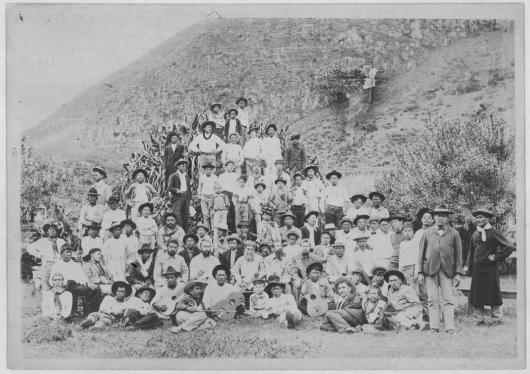 The Kalaupapa leper colony in 1905. There were approximately 750 living on the Kalaupapa peninsula at the time and included Stephen Mahelona Napela. Brother Dutton, in the center with the white beard, worked with Father Damien and also remained on Molokai until he died in 1931.